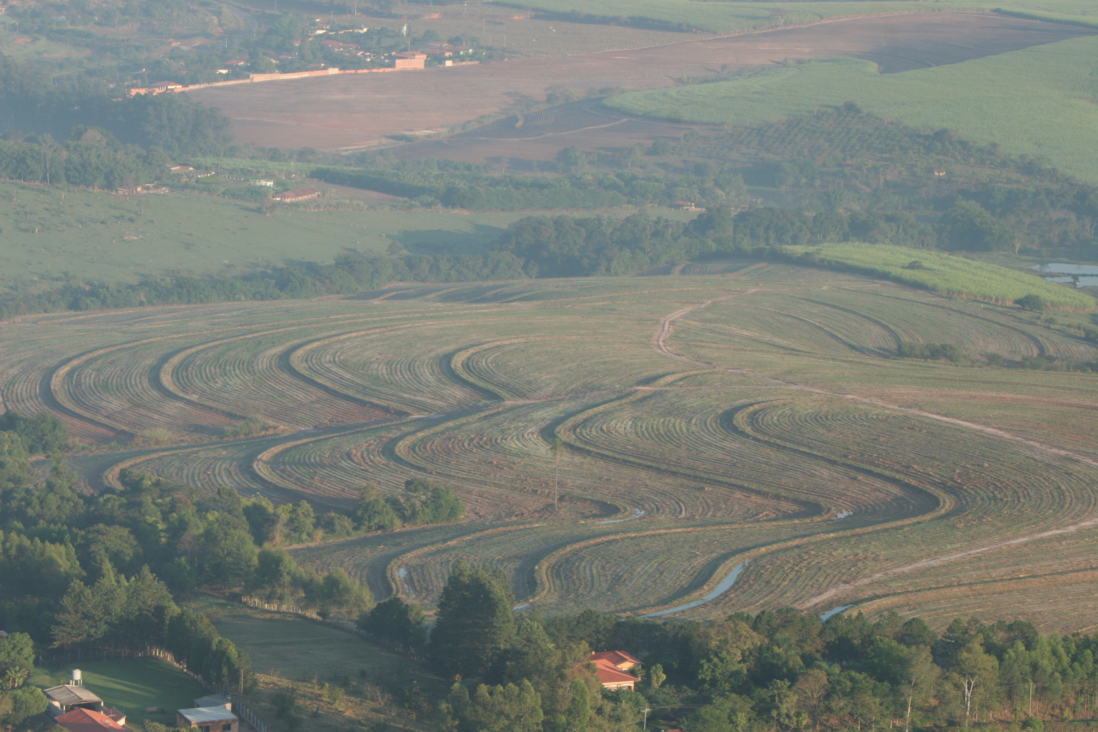 Farmings in Piracicaba, São Paulo, Brazil.